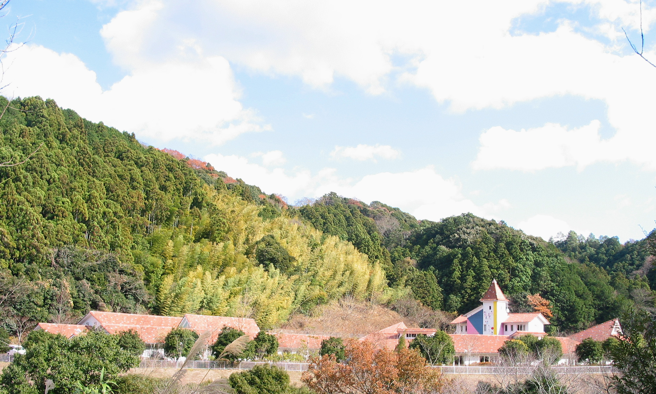 The Nemunoki School at the Nemunoki-mura ねむの木村にあるねむの木学園静岡県掛川市上垂木あかしあ通りで撮影